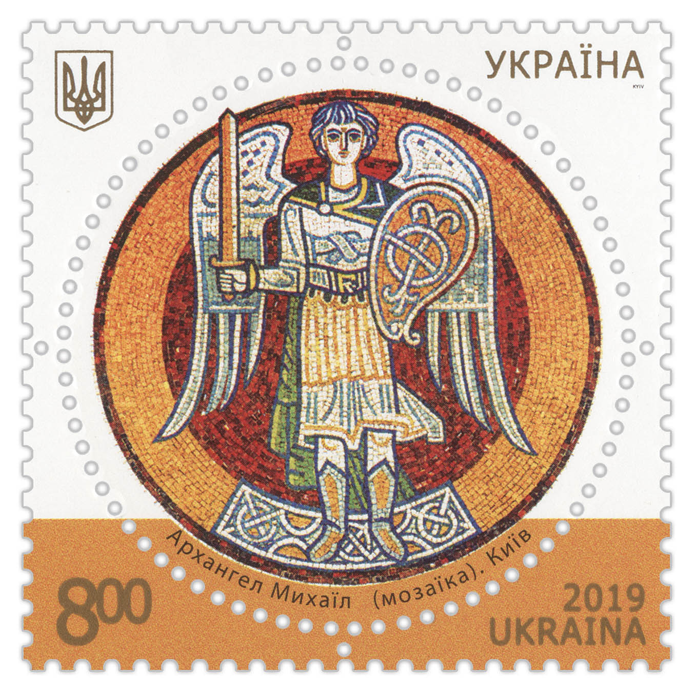 Archangel Michael - Stamp of Ukraine (2019)